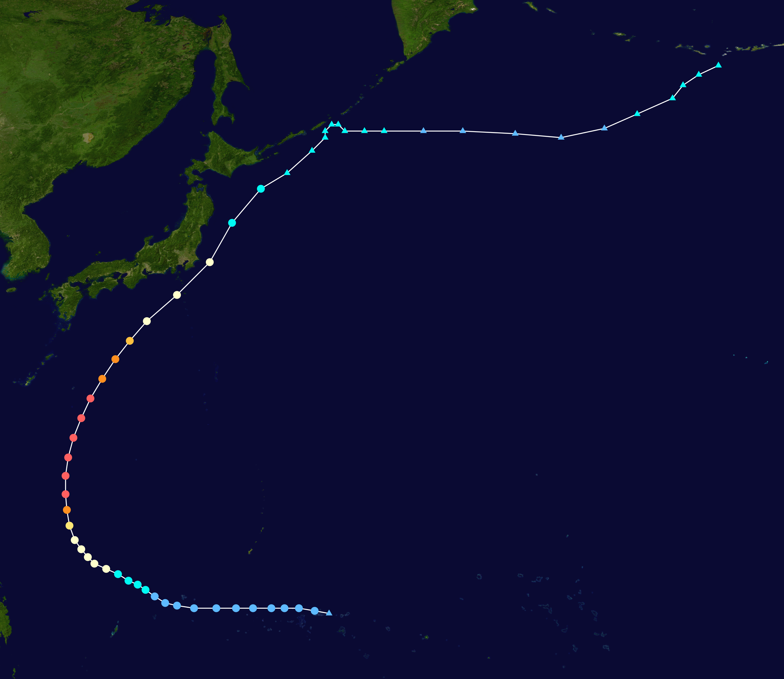 Track map of Typhoon Kit of the 1966 Pacific typhoon season. The points show the location of the storm at 6-hour intervals. The colour represents the storm's maximum sustained wind speeds as classified in the Saffir-Simpson Hurricane Scale (see below), and the shape of the data points represent the nature of the storm, according to the legend below. Saffir–Simpson hurricane wind scale Tropical depression≤38 mph≤62 km/h Category 3111–129 mph178–208 km/h Tropical storm39–73 mph63–118 km/h Category 4130–156 mph209–251 km/h Category 174–95 mph119–153 km/h Category 5≥157 mph≥252 km/h Category 296–110 mph154–177 km/h Unknown Storm typeTropical cycloneSubtropical cycloneExtratropical cyclone / Remnant low / Tropical disturbance